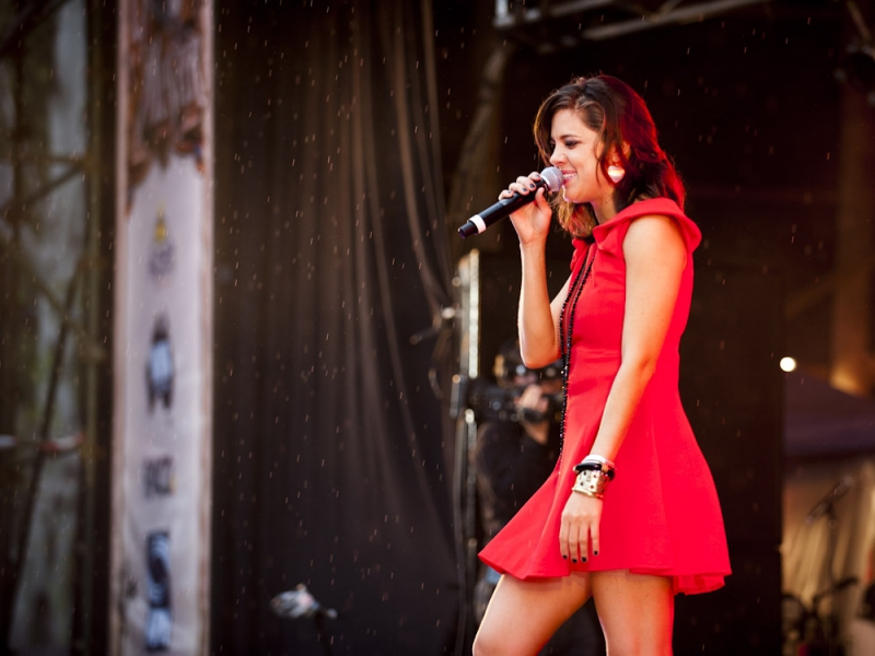 Amber Lawrence live performance